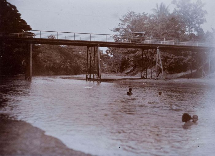 Car passing a bridge across the Cidurian river